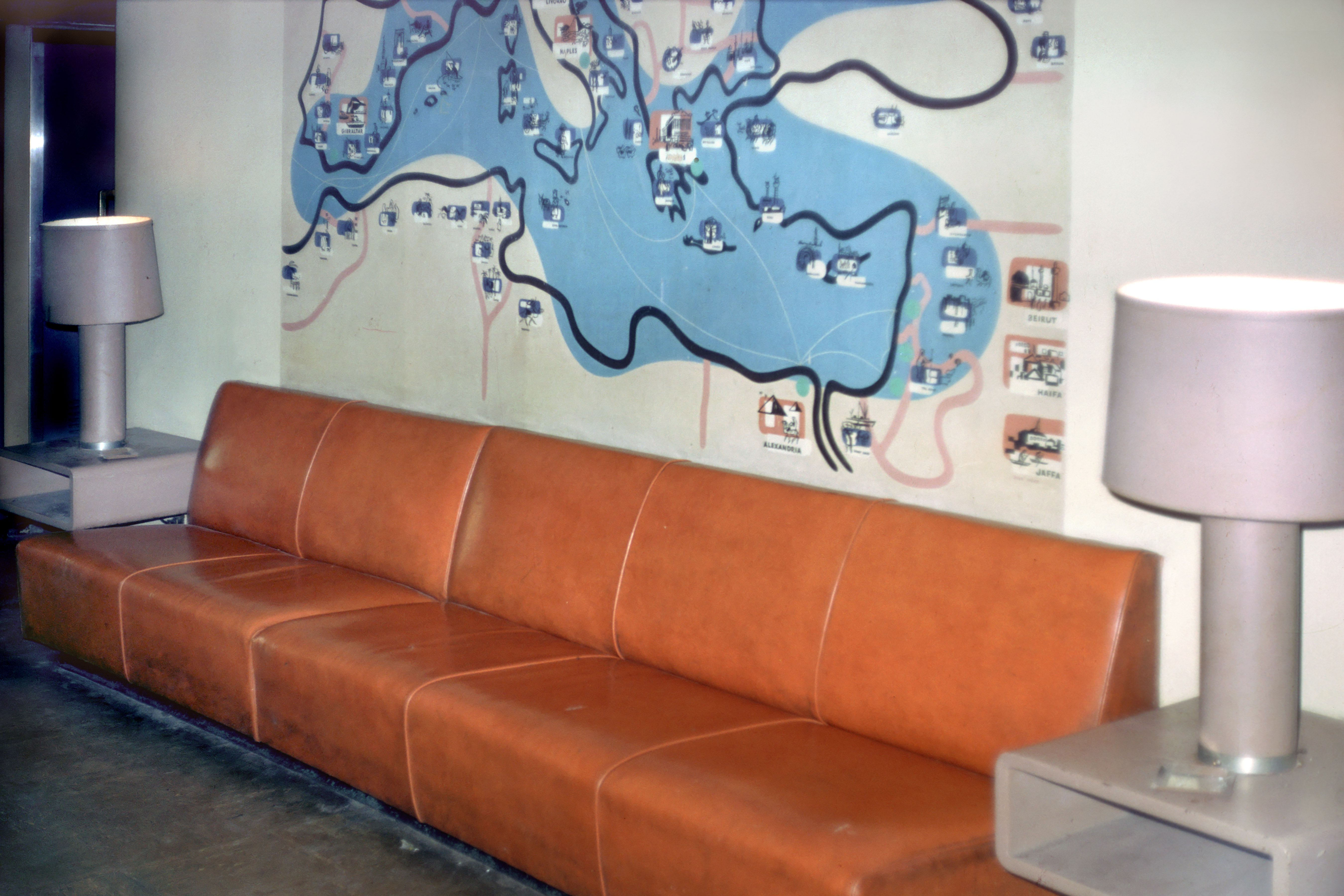 SS Stevens view of A-deck, main foyer, showing Miné Okubo's Mediterranean mural map. The blue field is the Mediterranean Sea; the coastline is outlined in black; the sailing route is shown with fine white lines; port names are shown along with local features such as pyramids, palm trees, and people riding camels. The work was commissioned by interior designer Henry Dreyfuss for the new fleet of "4 Aces" vessels for American Export Lines in 1948. The mural was pictured in the Fortune magazine article, Modern Art Goes to Sea, June, 1949. SS Stevens was formerly cruise liner SS Exochorda of the New "4 Aces" fleet of American Export Lines The image was scanned from the original Kodachrome 25 (Daylight) 35mm film image. For other photos, see SS Stevens Gallery